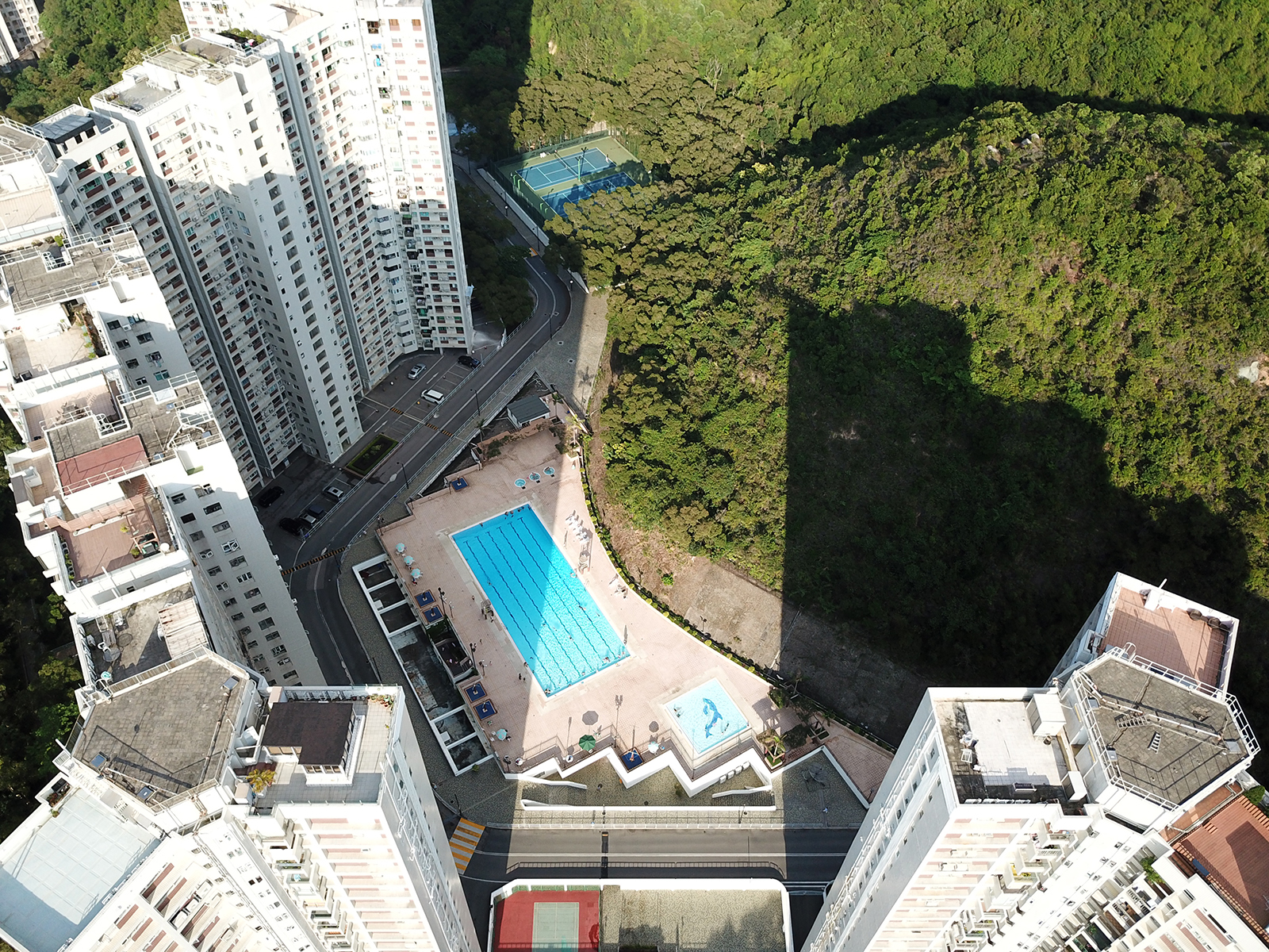 Braemar Hill Mansion swimming pool